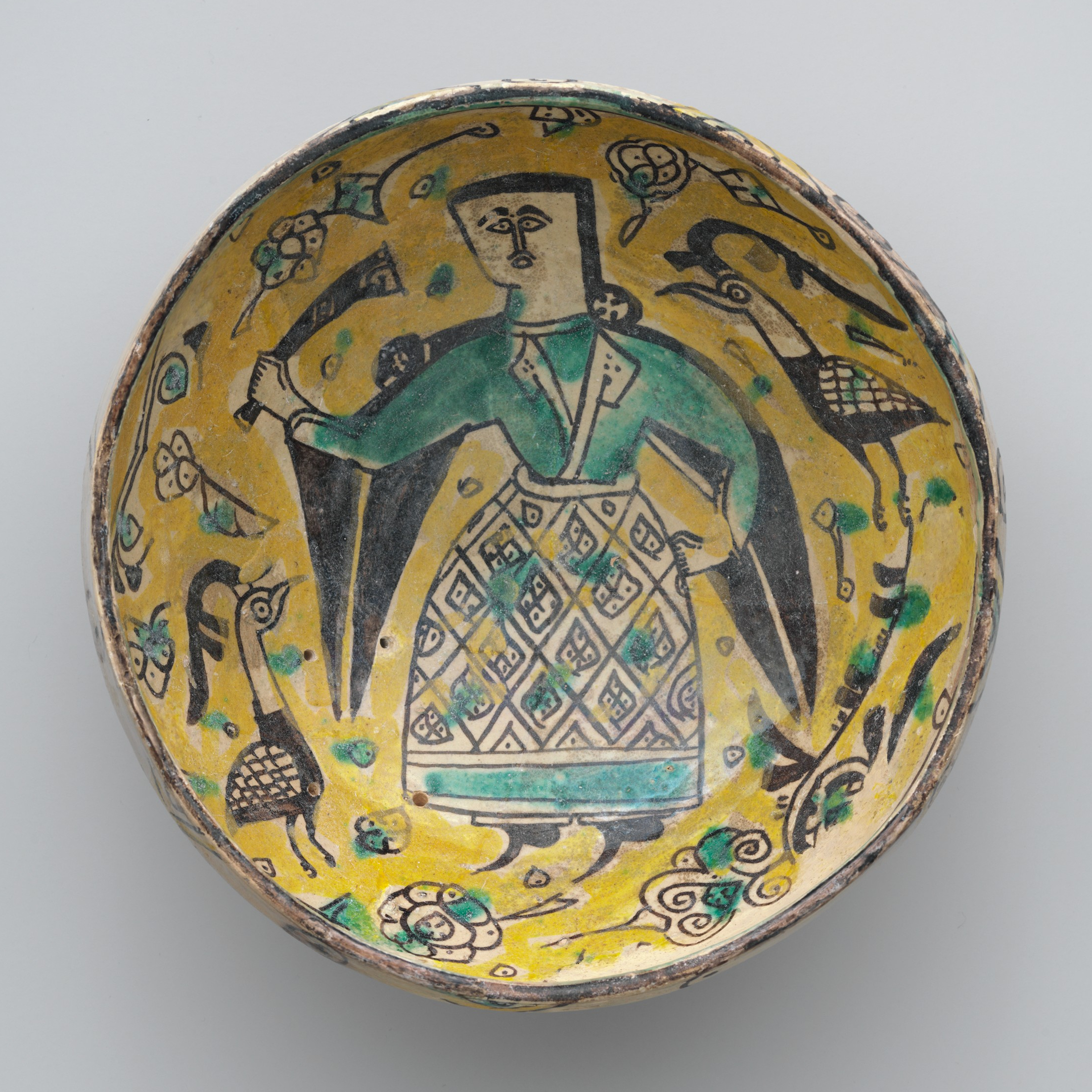 Bowl; Ceramics